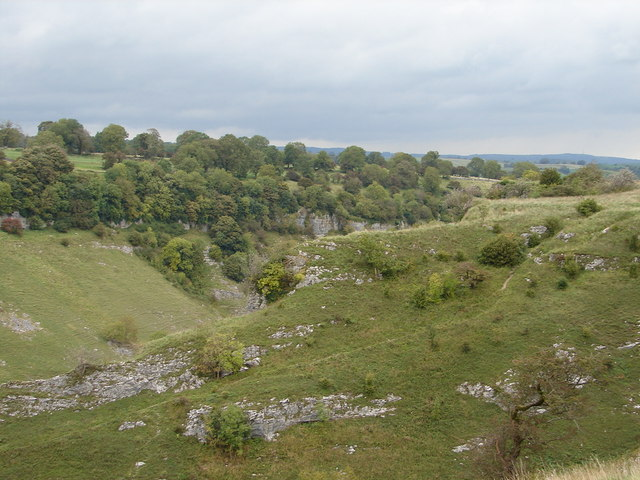 Chee Dale View from layby on the A6.